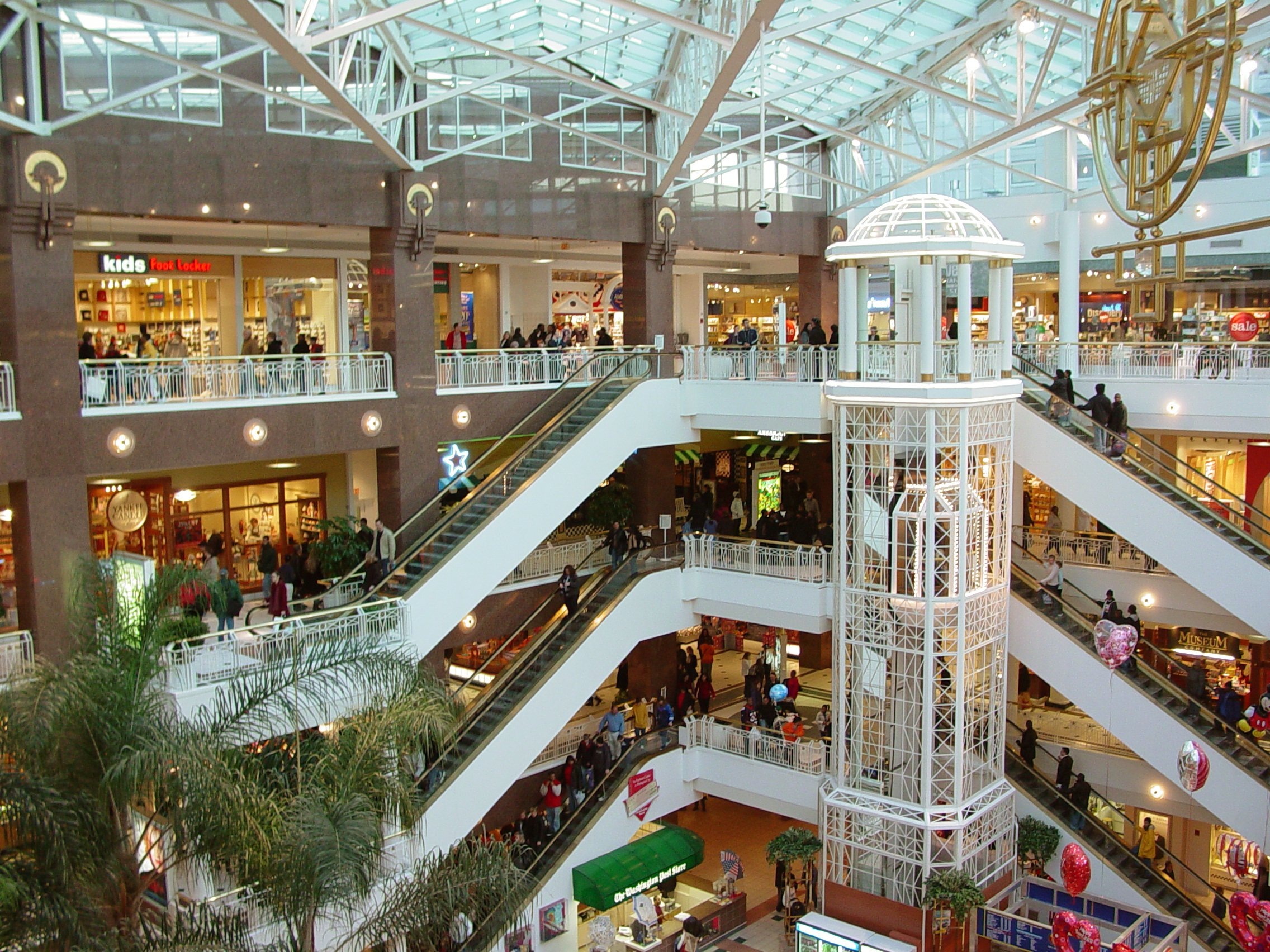 Pentagon City Mall in 2003.